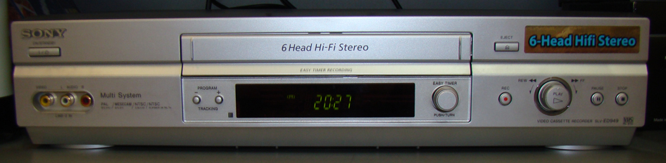 Sony Professional VCR